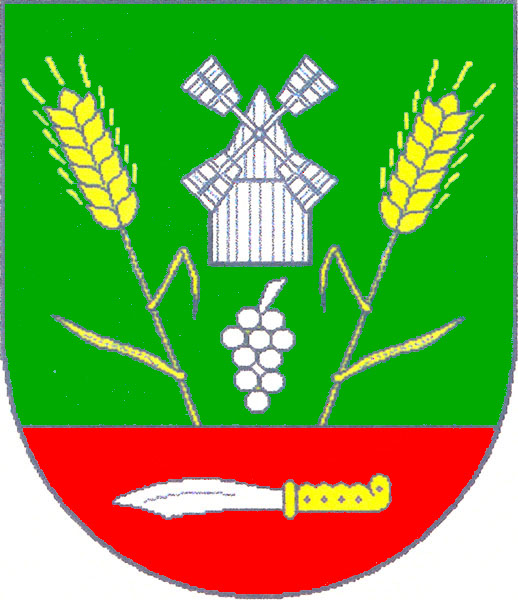 Municipal coat of arms of Chvalkovice village, Vyškov District, Czech Republic.